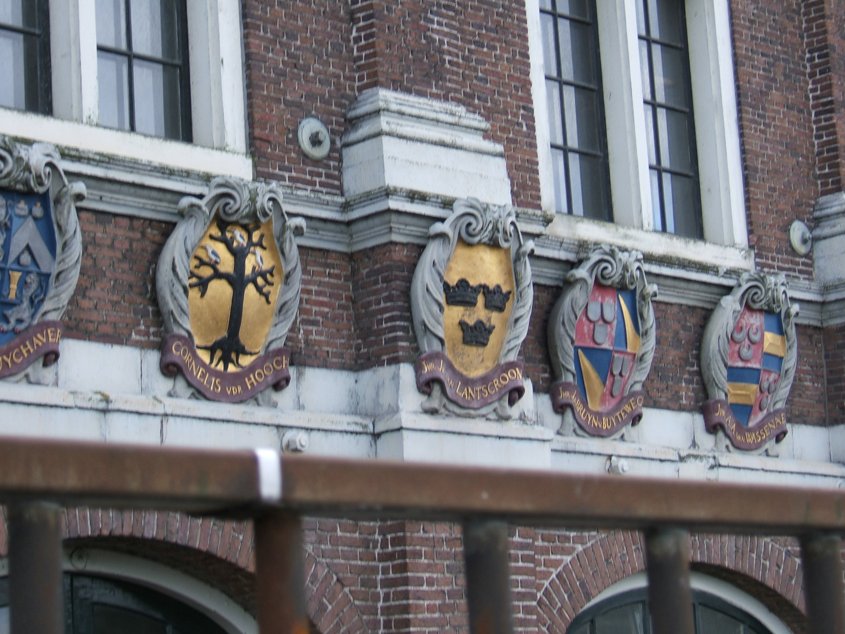 Sugar city in Halfweg; old sugar factory now renovated. Office and housing space.